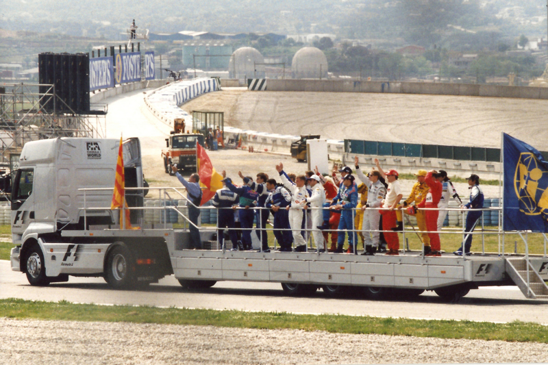 The drivers were taken around on a truck, and they waved to the grandstands before the race. You can see some of the chain-link fence; this was the only one which didn't block the drivers.